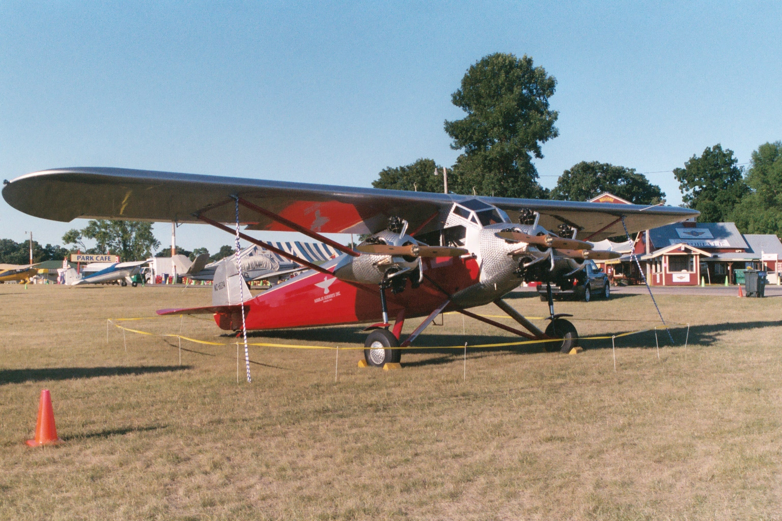 1929 Kreutzer Air Coach K5